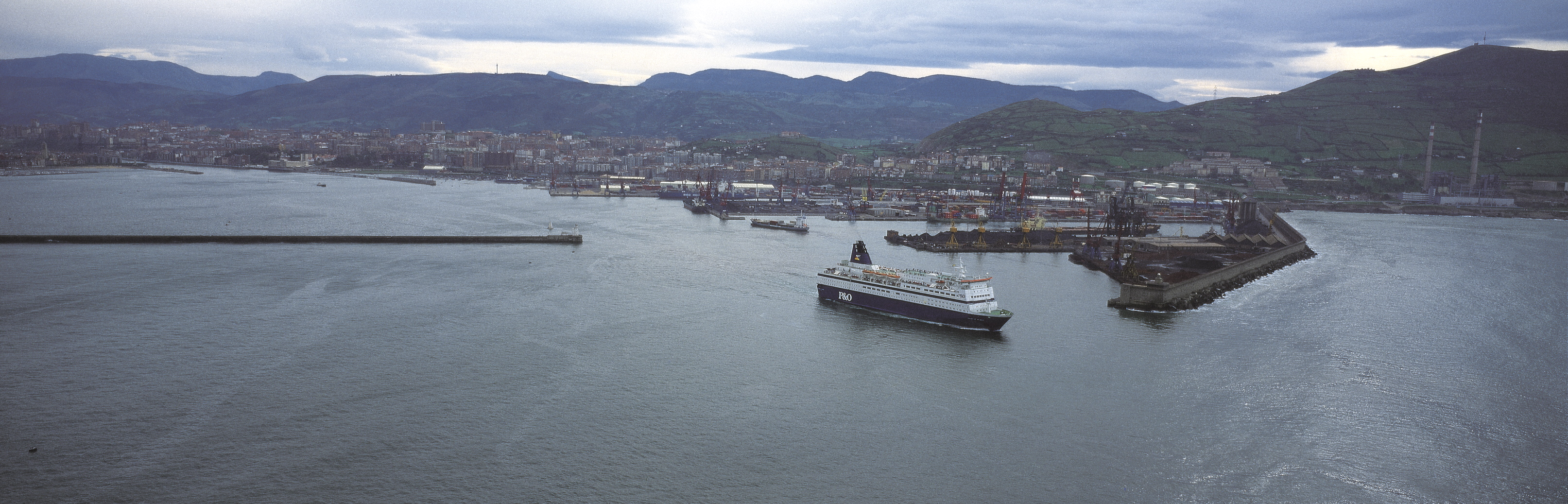 Pride of Bilbao ship set sail from Bilbao port in Basque Country, to Portsmouth port, England.